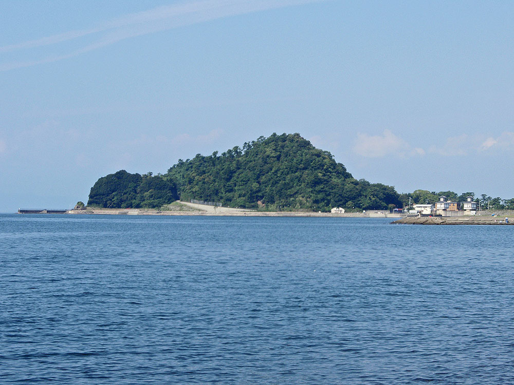 Mount Ushibuse as seen from the southeast in Numazu City, Shizuoka Prefecture, Japan.